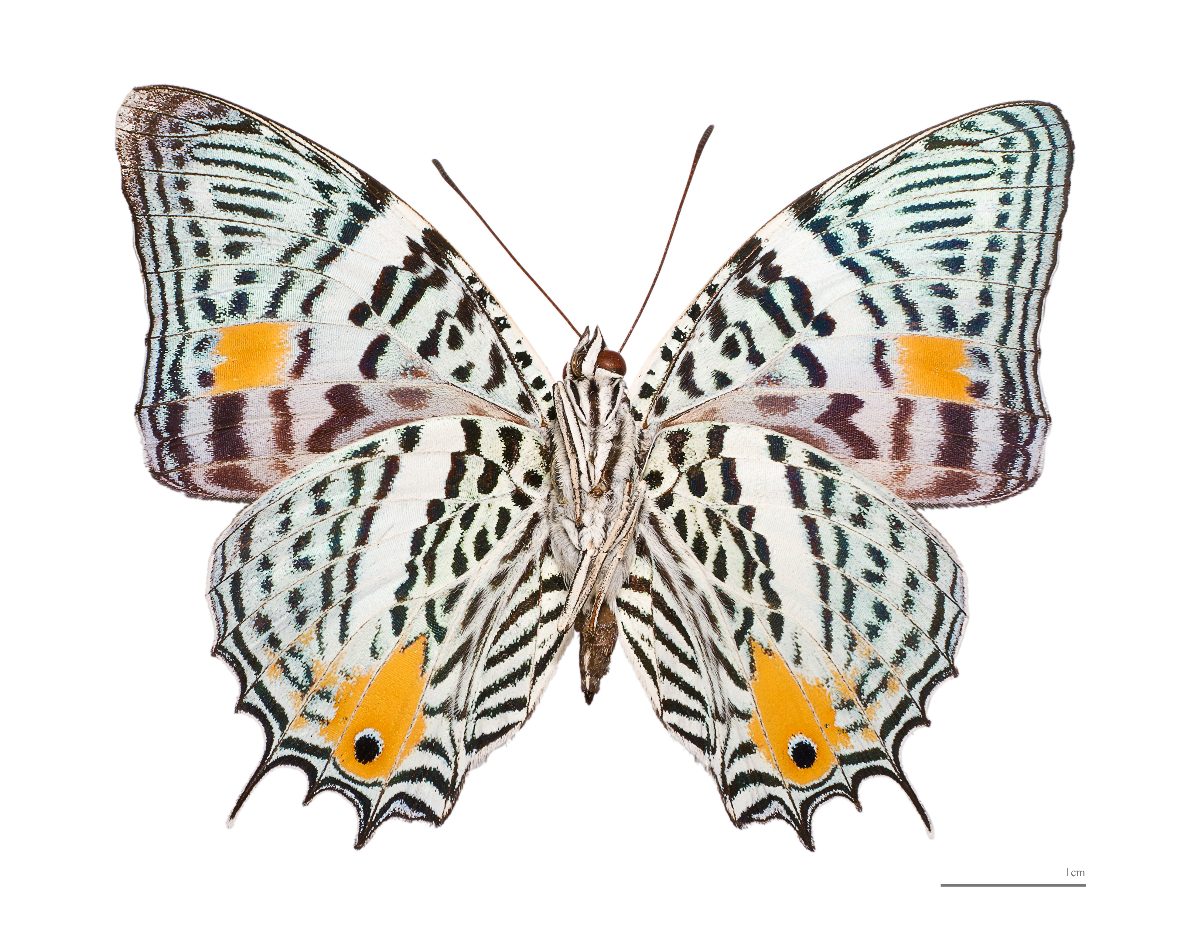 ♂ - △ Ventral side Locality : Cacao, Crique Baguot, French Guiana.